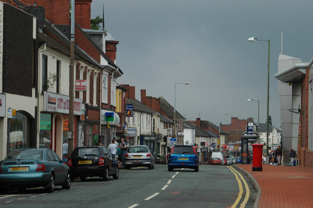 High Street, Cradley Heath The new Tesco's is on the right.